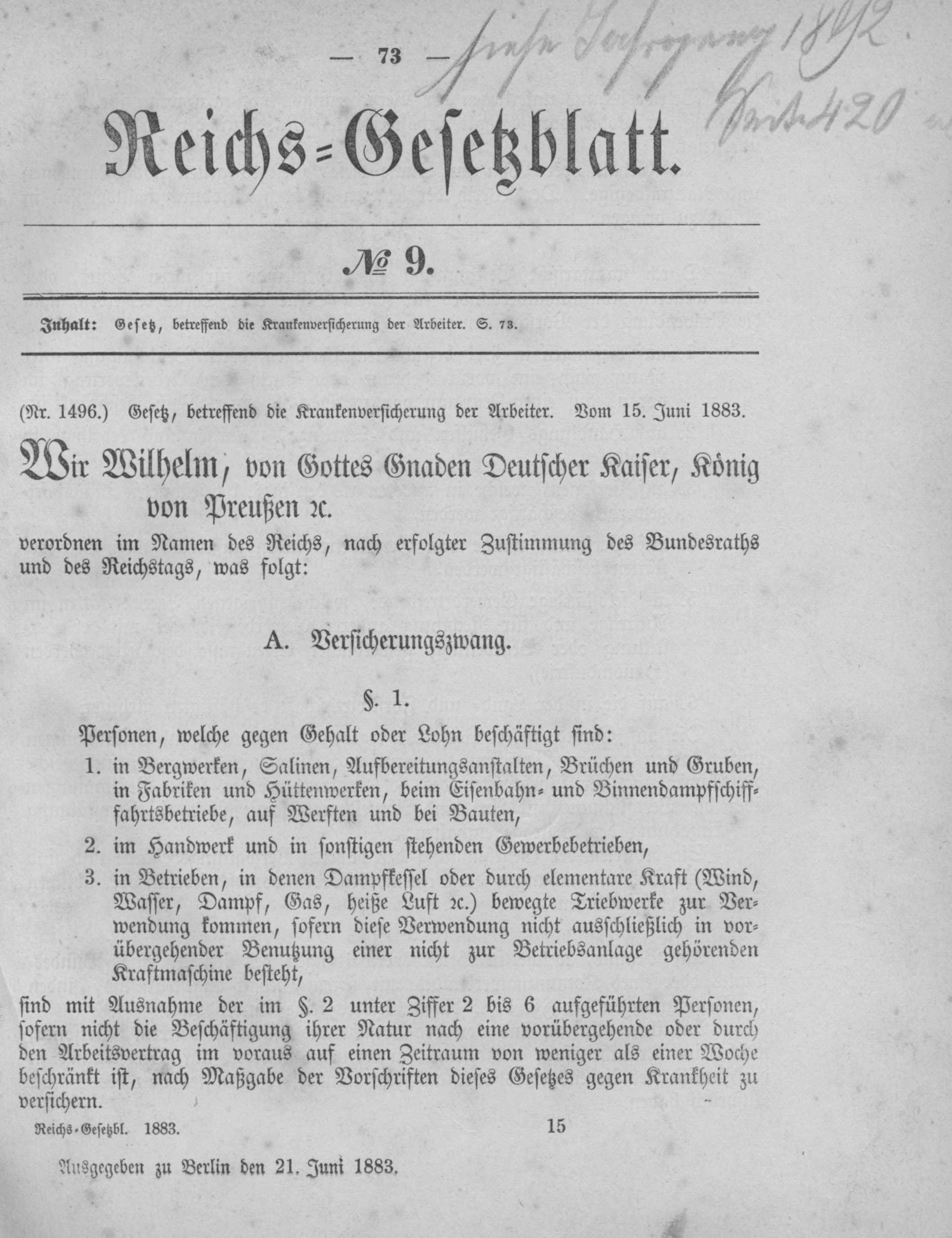 Scan from the Imperial Law Gazette of Germany, 1883